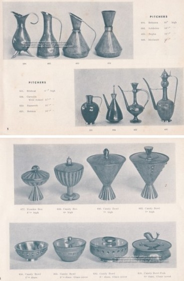 Art Deco metalware designed by the sculptor and industrial designer Maurice Ascalon and manufactured by the Pal-Bell Company in Tel-Aviv, Israel circa 1939-1950. I am the trademark holder of Pal-Bell Co. Ltd., and the copyright holder of this image and grant the licenses herein specified for free reproduction of the image. Eric Ascalon, Ascalon Studios, Inc.